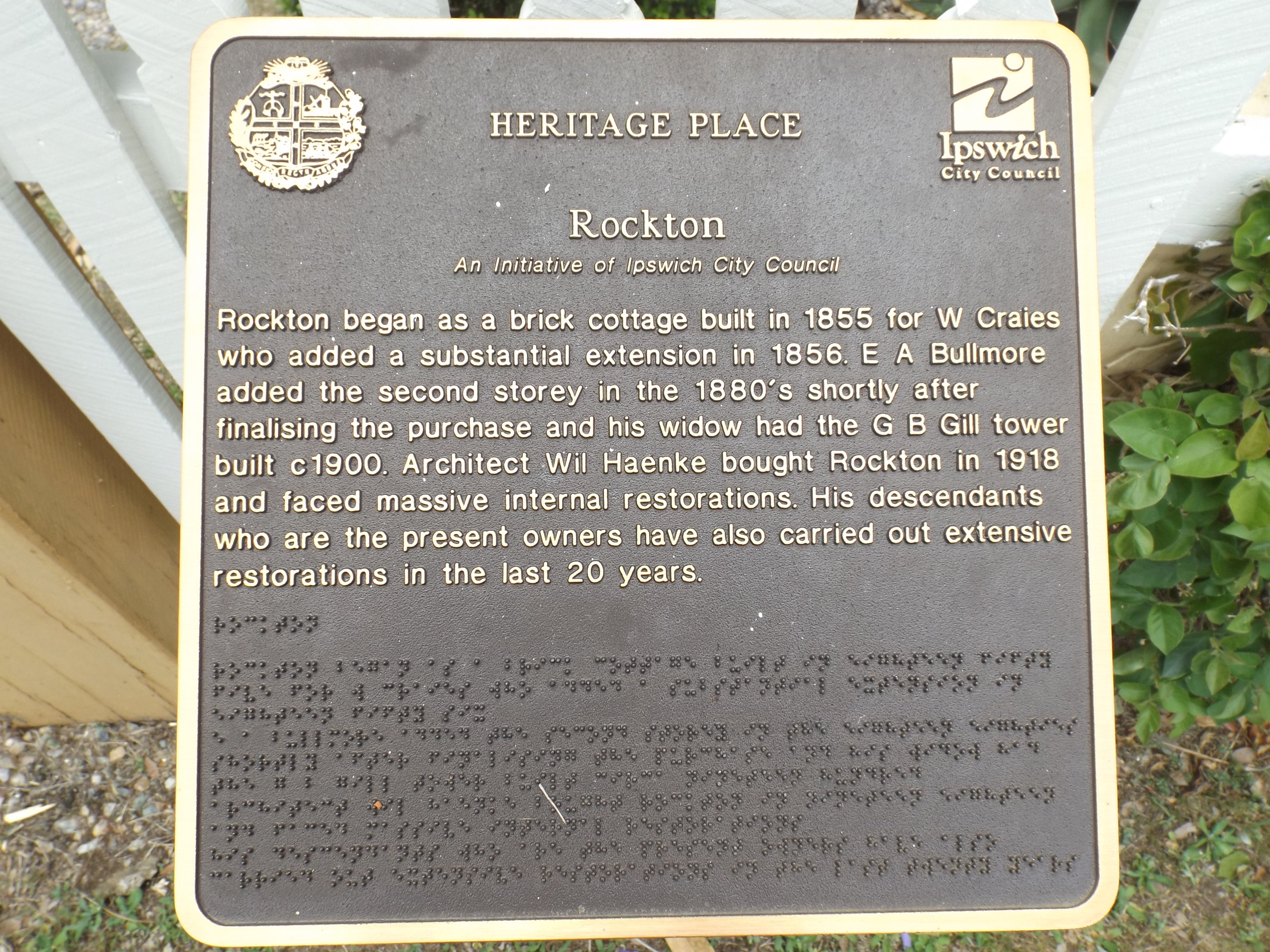 Photo of Ipswich City Council plaque at Rockton in Newtown, Ipswich, Queensland, Australia.